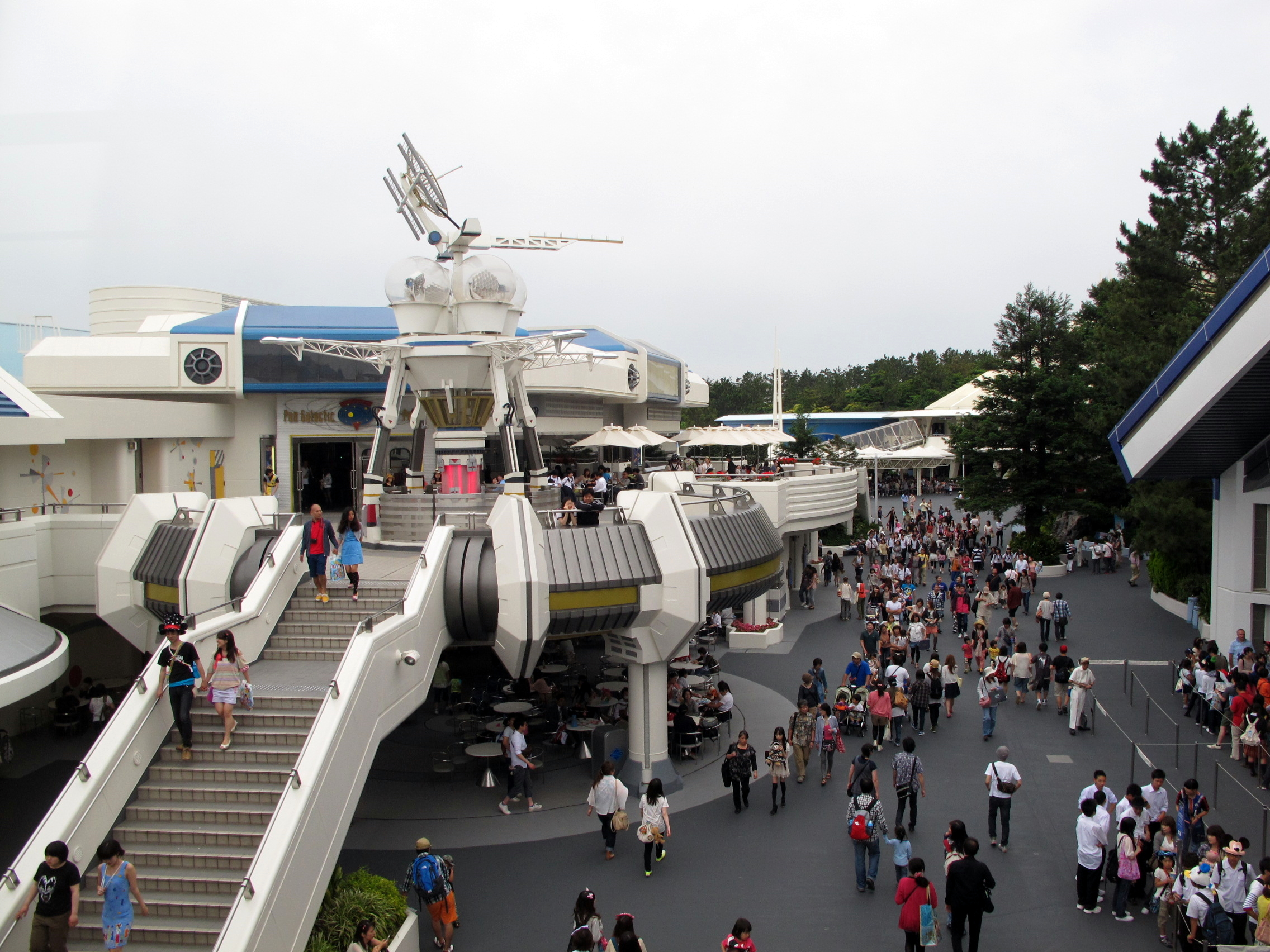 Tokyo Disneyland Tomorrowland view